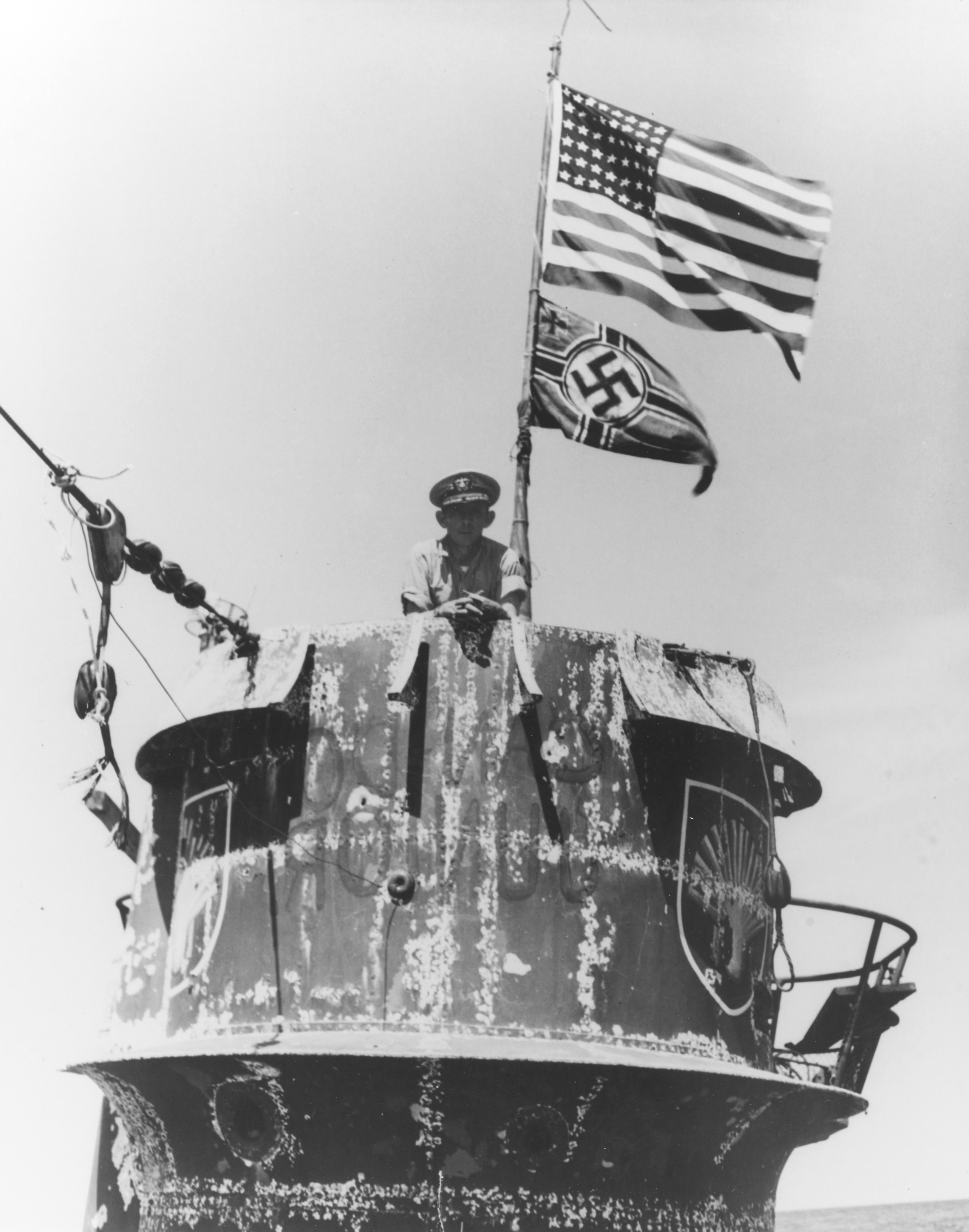 Captain Daniel V. Gallery, USN, Commanding Officer of the U.S. Navy escort carrier USS Guadalcanal (CVE-60), on the bridge of the captured German submarine U-505 prior to its being taken in tow by his escort carrier, 4 June 1944. U-505 was the first enemy warship captured on the high seas by the U.S. Navy since 1815. Note the large U.S. flag flying over the German naval ensign.